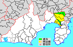 The location of Sunto District in Shizuoka Prefecture, Japan